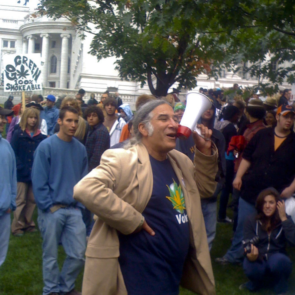 Ben Masel speaking at the Great Midwest Marijuana Harvest Festival in Madison, Wisconsin, in 2008.